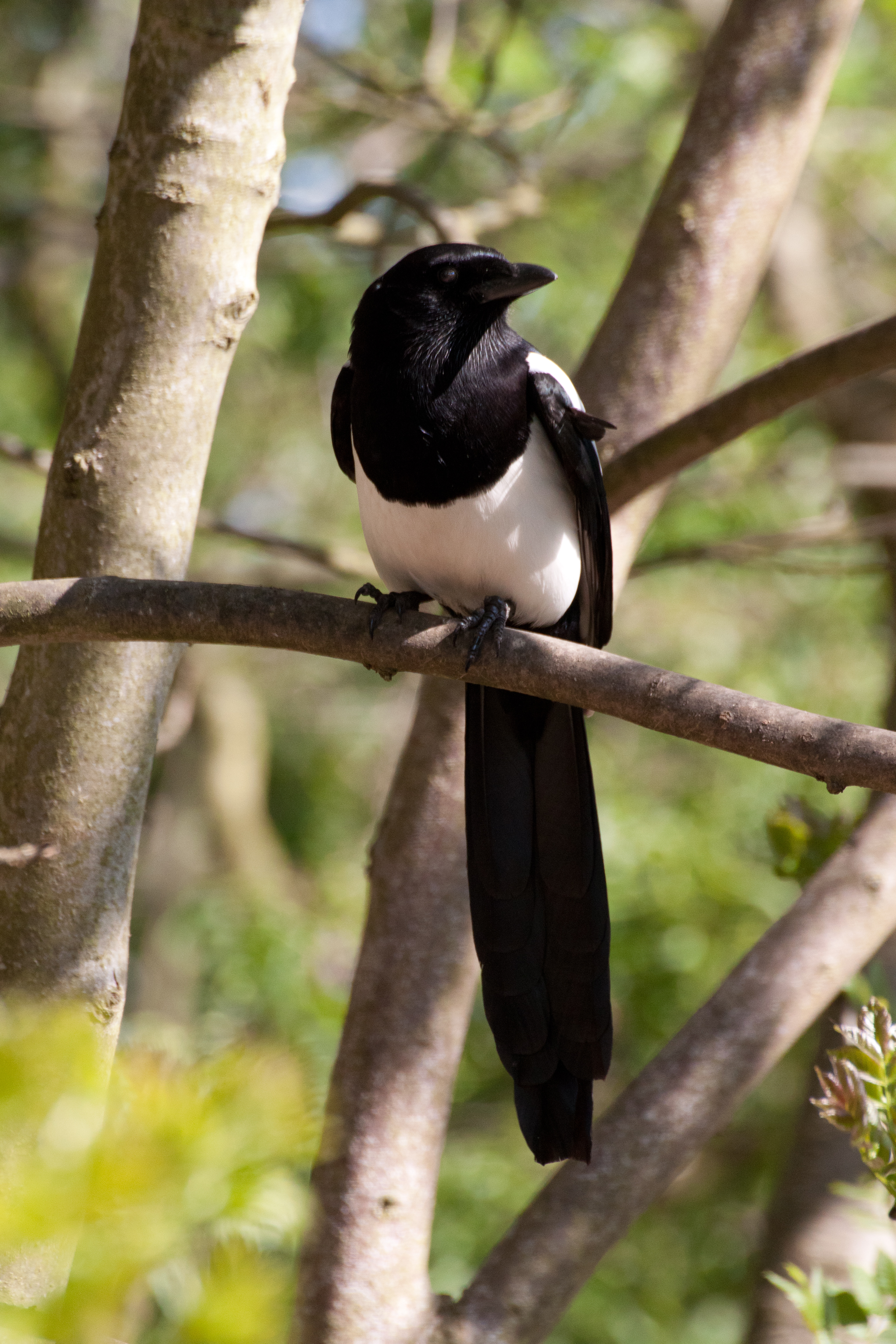 Common Magpie (Pica pica), Birmingham, United Kingdom